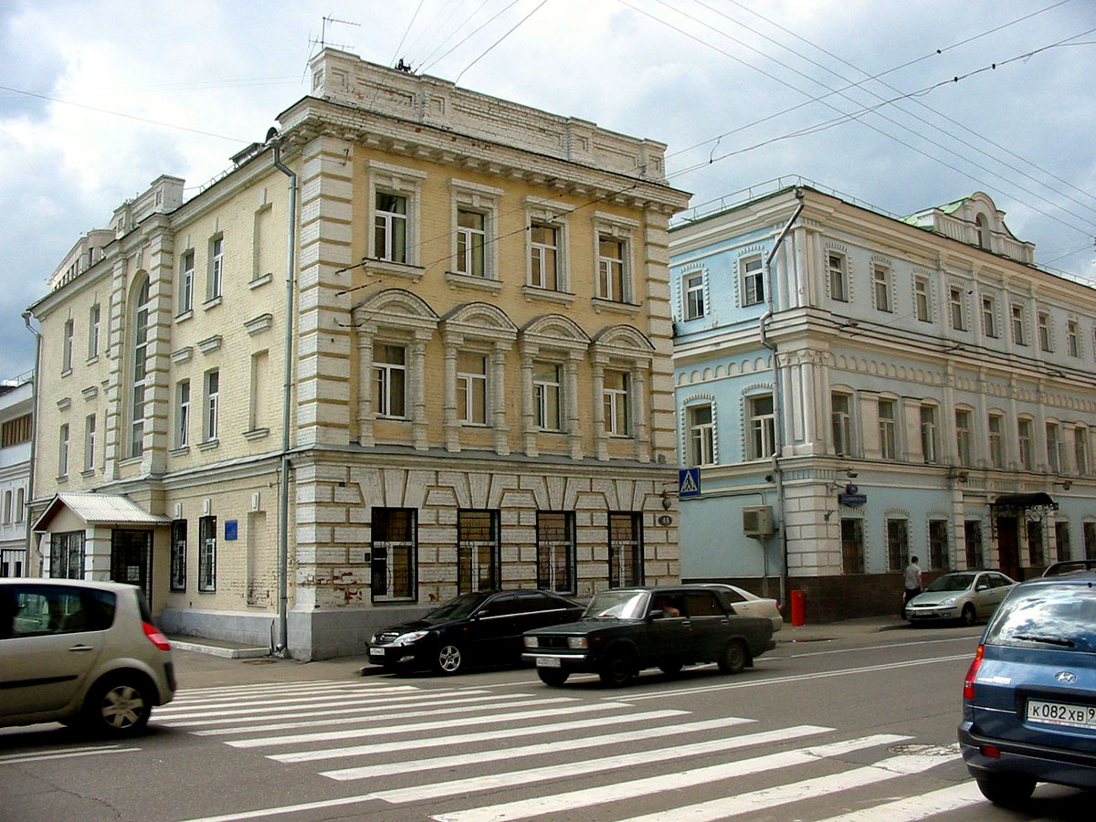 Moscow, Russia Sadovnicheskaya street, No. 48 (Gershwin school of music) and 46 Taken: 28 of July, 2005 Still standing, as of January 2007